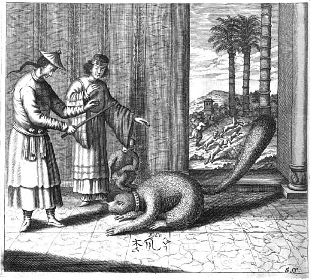 Engraving of the Sumxu (from Chinese 松鼠, songshu, i.e. "squirrel"), a domestic animal "not dissimilar to the cat".